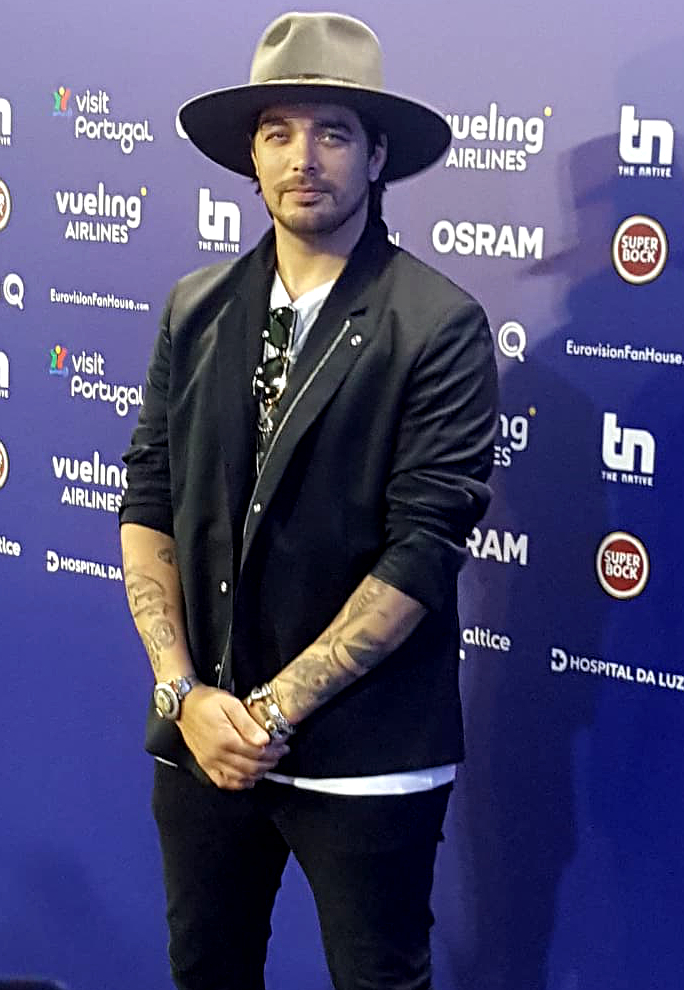 Dutch singer Waylon on May 2018.